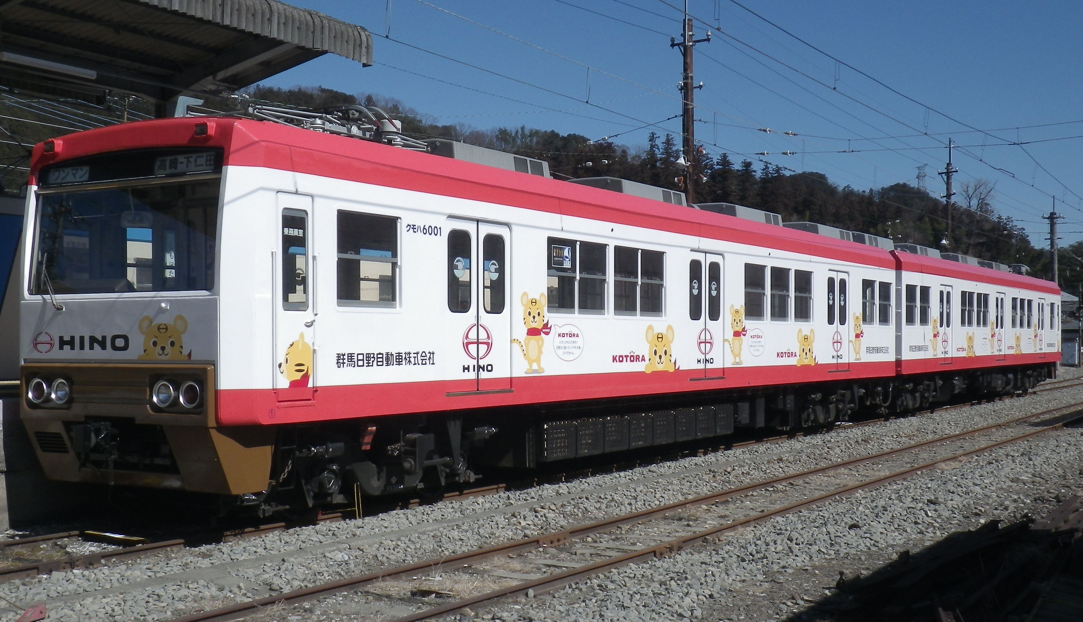 Joshin Electric Railway 6000 series at Shimonita Station